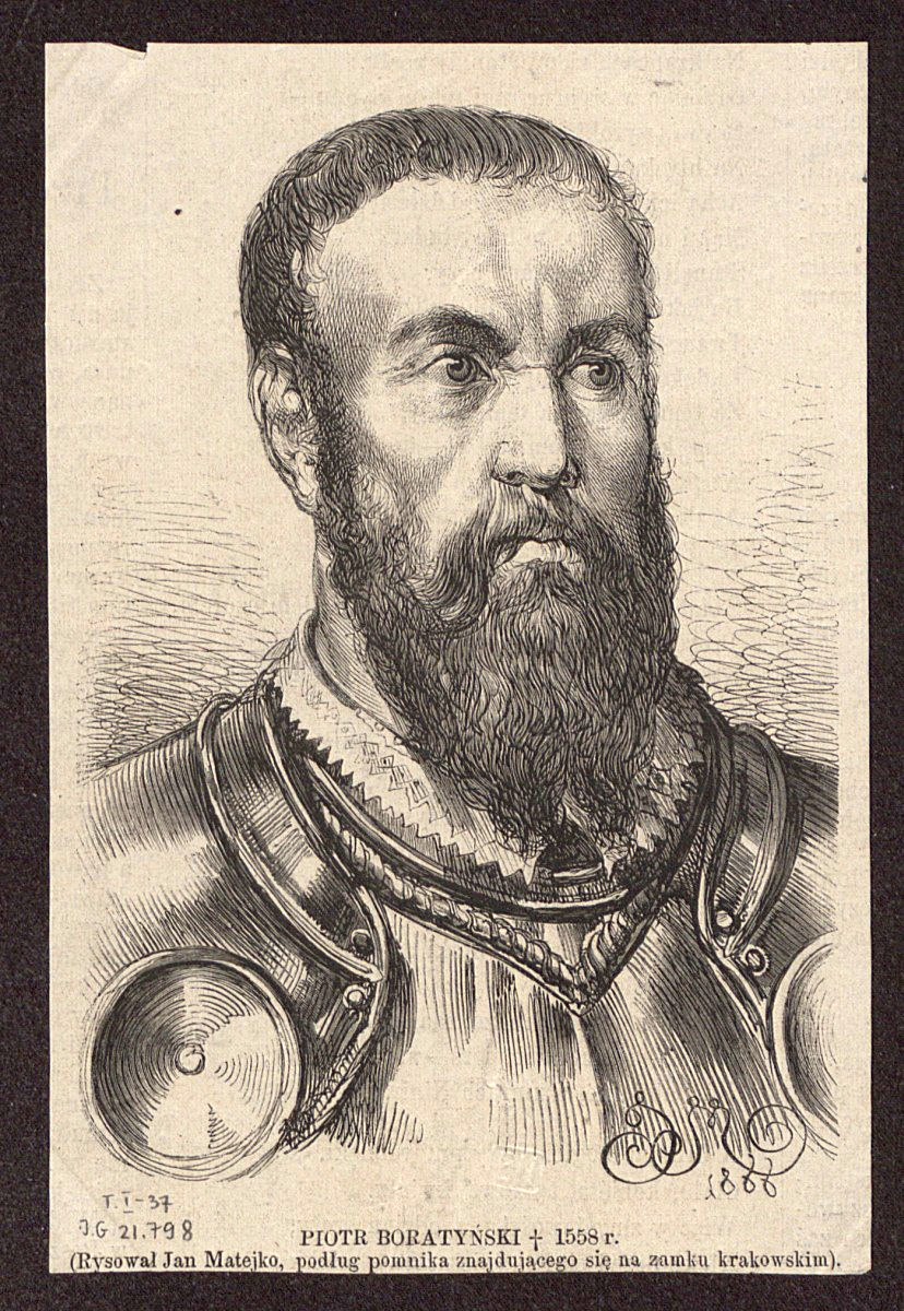 Petro Boratynskyi